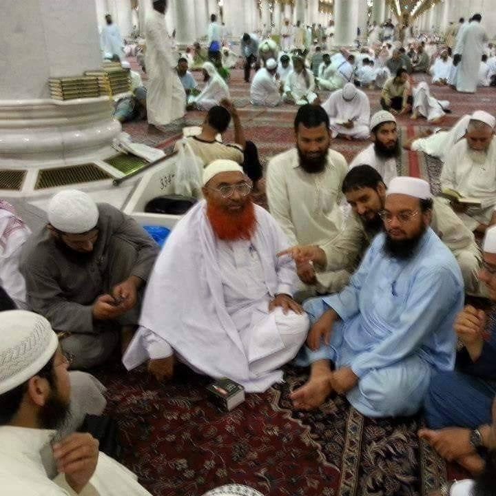 Zubair Ali Zai in Al-Masjid an-Nabawi in his last visit in Saudi Arabia